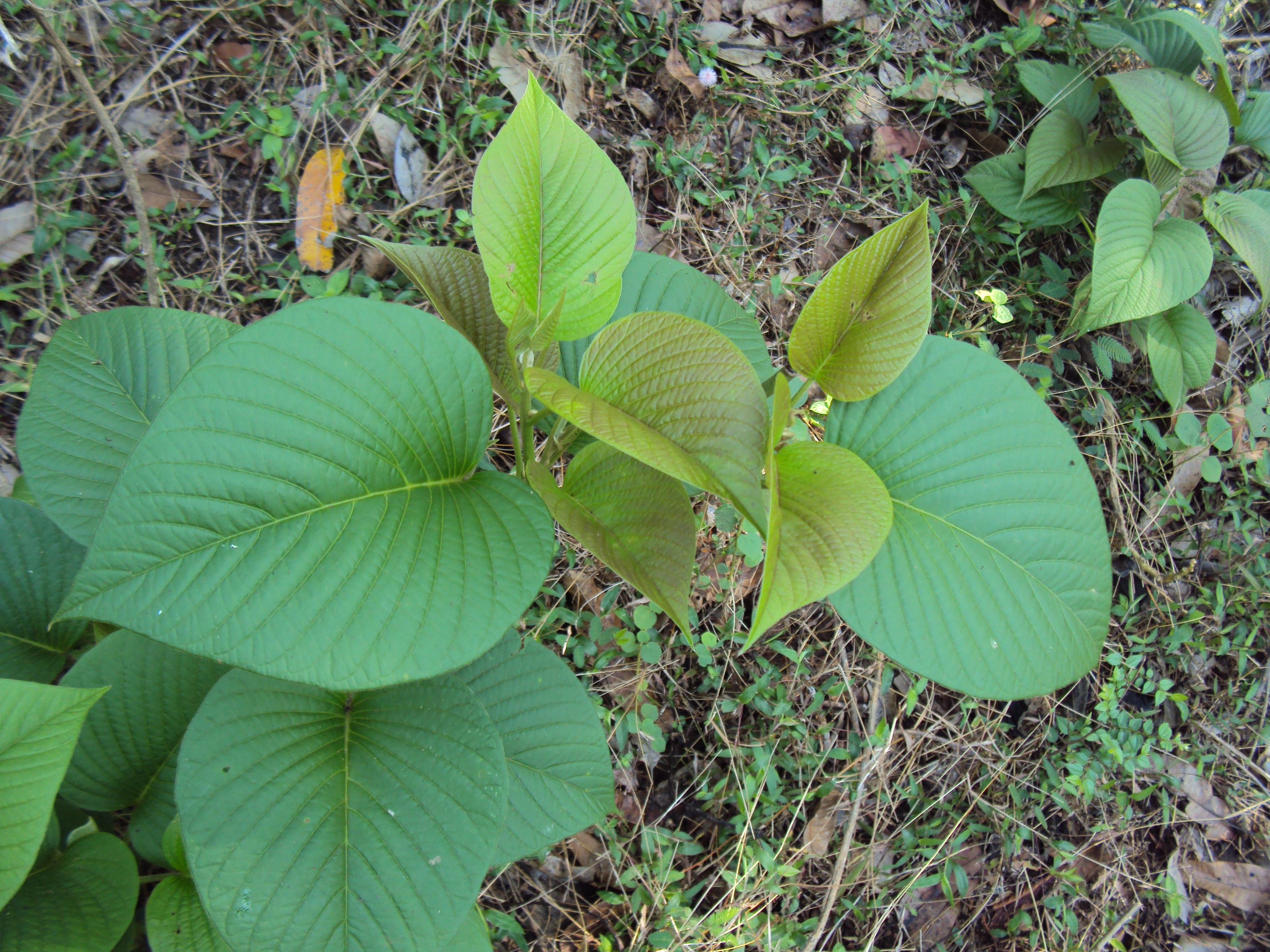 Argyreia nervosa